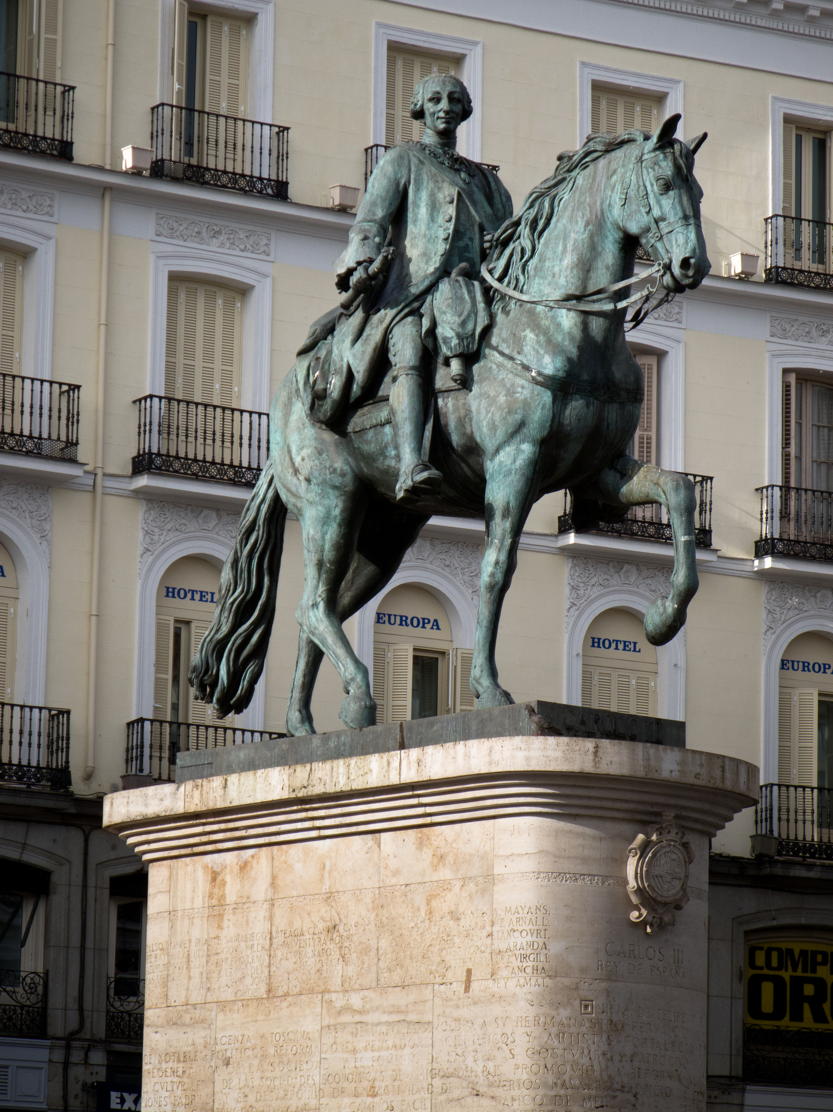 Statue of Charles III of Spain, Madrid, Spain.